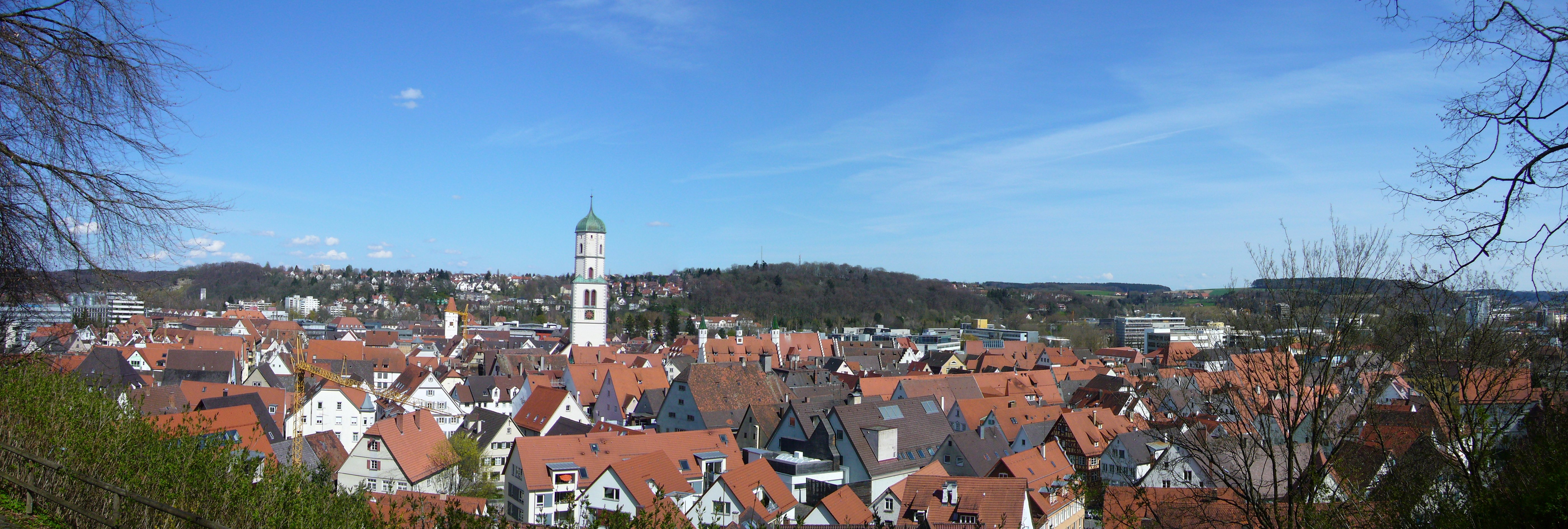 Panorama of Biberach Riss, Germany; taken from Gigelberg